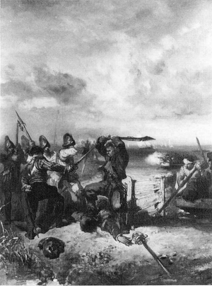 Jan Haring Battle of Diemerdijk at Amsterdam in 1573. painting.